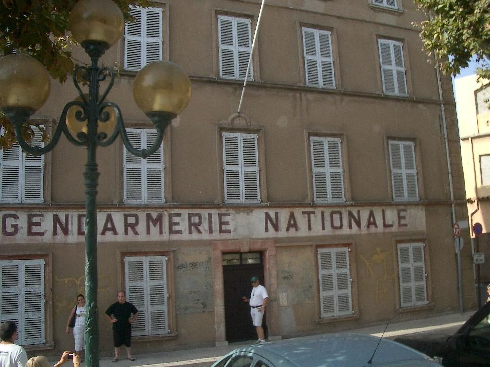 Gendarmerie Nationale in Saint-Tropez (France). Ludovic Cruchot used to work there.